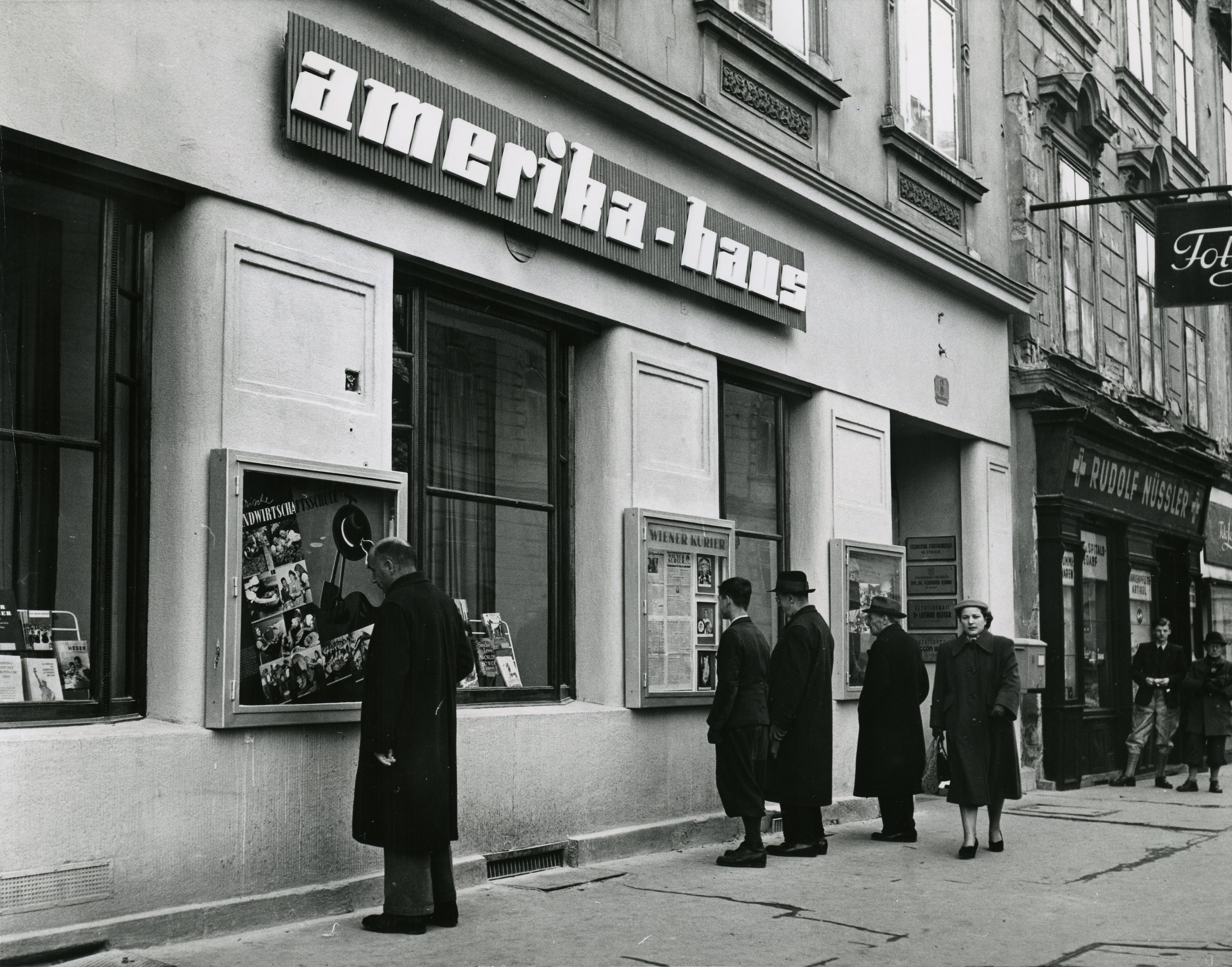 Window Displays of the New Amerika Haus Always Attract the Attention of the Passers-By. To further promote cultural ties and mutual understanding, a new Amerika Haus was opened today in Graz.